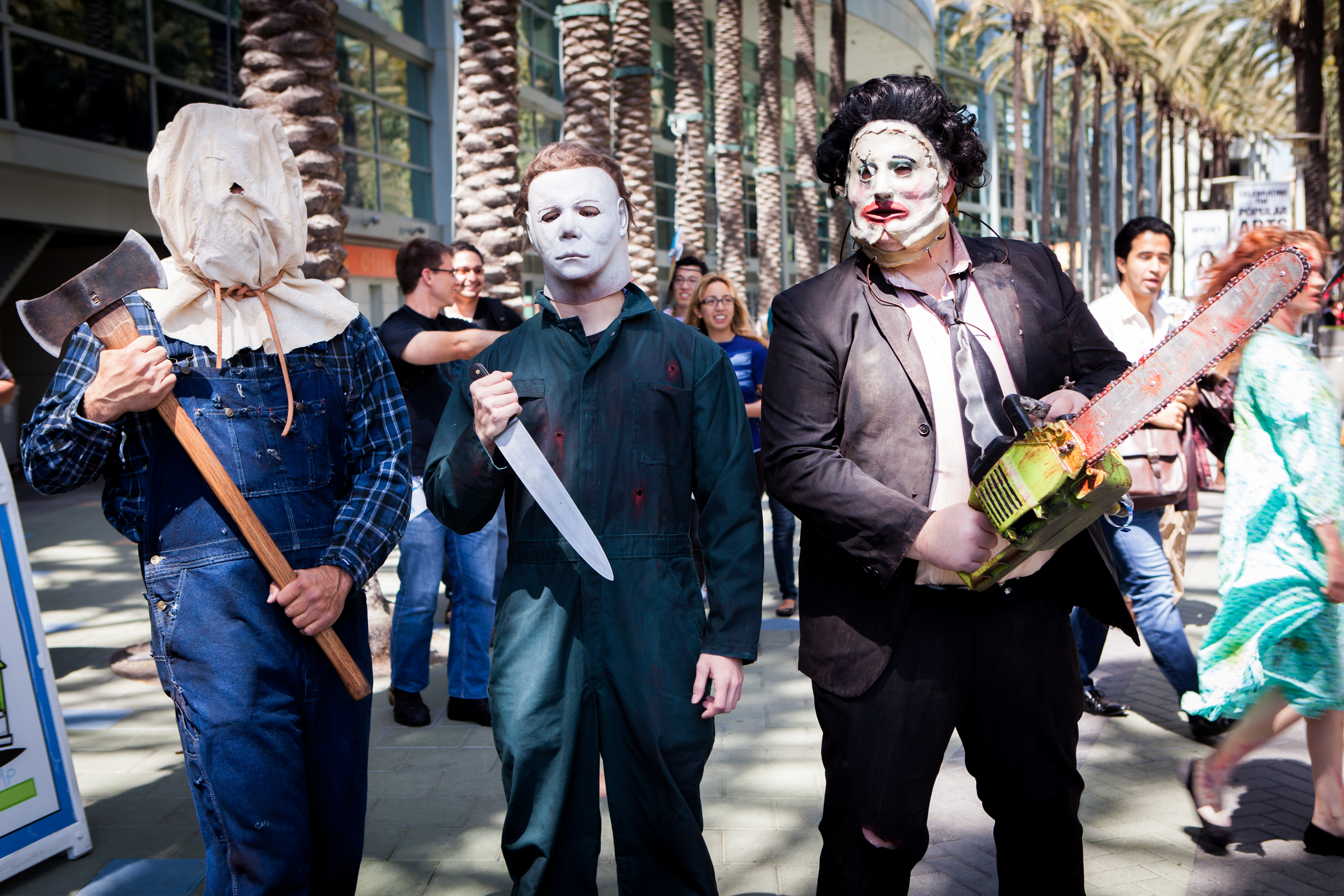 Cosplay at WonderCon 2015. From left to right: Jason Voorhees (from Friday the 13th: Part 2), Michael Myers (from the Halloween franchise) and Leatherface (from The Texas Chain Saw Massacre).